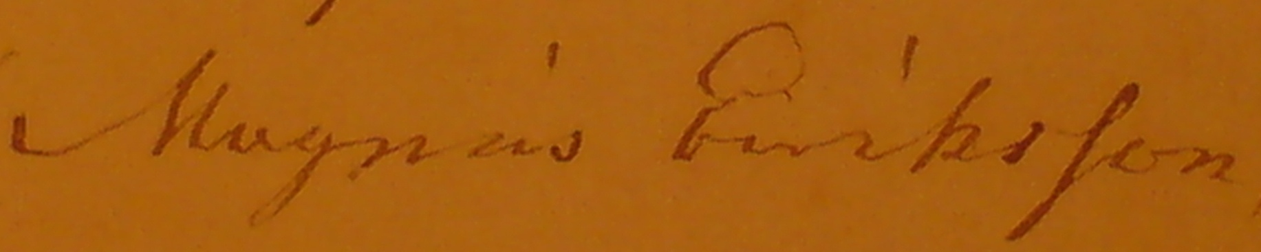 The original signature of Magnús Eiríksson (in my copy of his bookh [Theodor Immanuel], Breve til Clara Raphael, Copenhagen 1851).